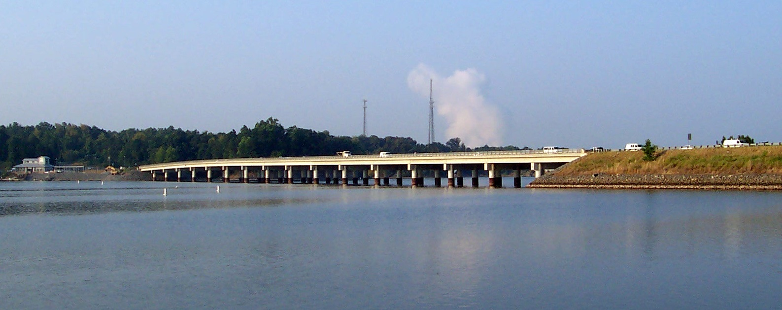 The Buster Boyd Bridge taken on August 15, 2007. The photo was taken in Lake Wylie, South Carolina between T-Bones Restaurant and the public boat ramps. The water level of Lake Wylie is more than five feet below normal levels in this photo, due to a drought at the time this photo was taken. You'll also notice a large plume of what looks like smoke in the background. That is actually steam being released from the Catawba Nuclear Power Station nearby.